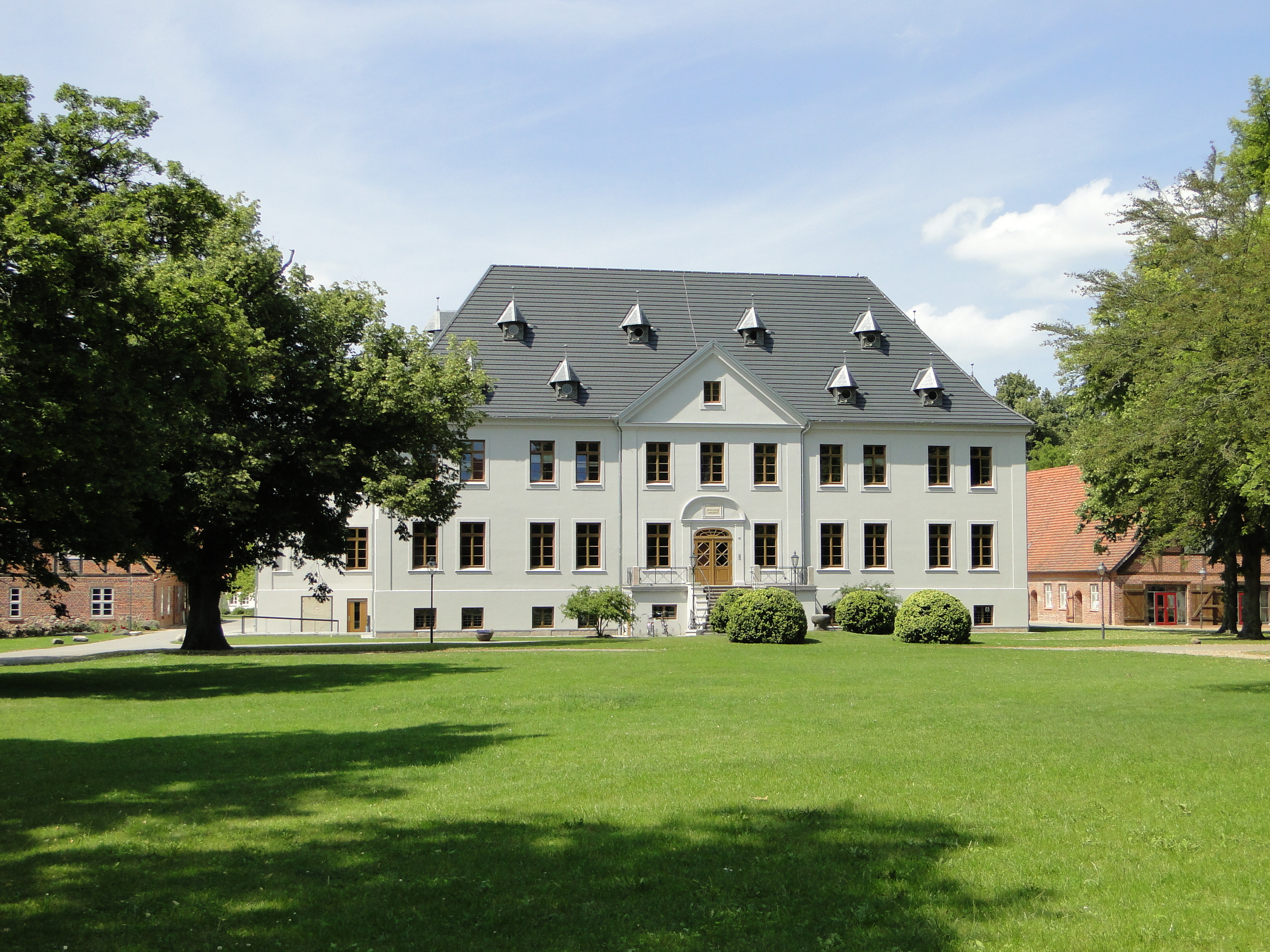 Klosterhauptmannshaus in Dobbertin, district Parchim, Mecklenburg-Vorpommern, Germany